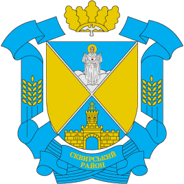 Coat of Arms Skvyra Rajon Kyiv Oblast Ukrainr